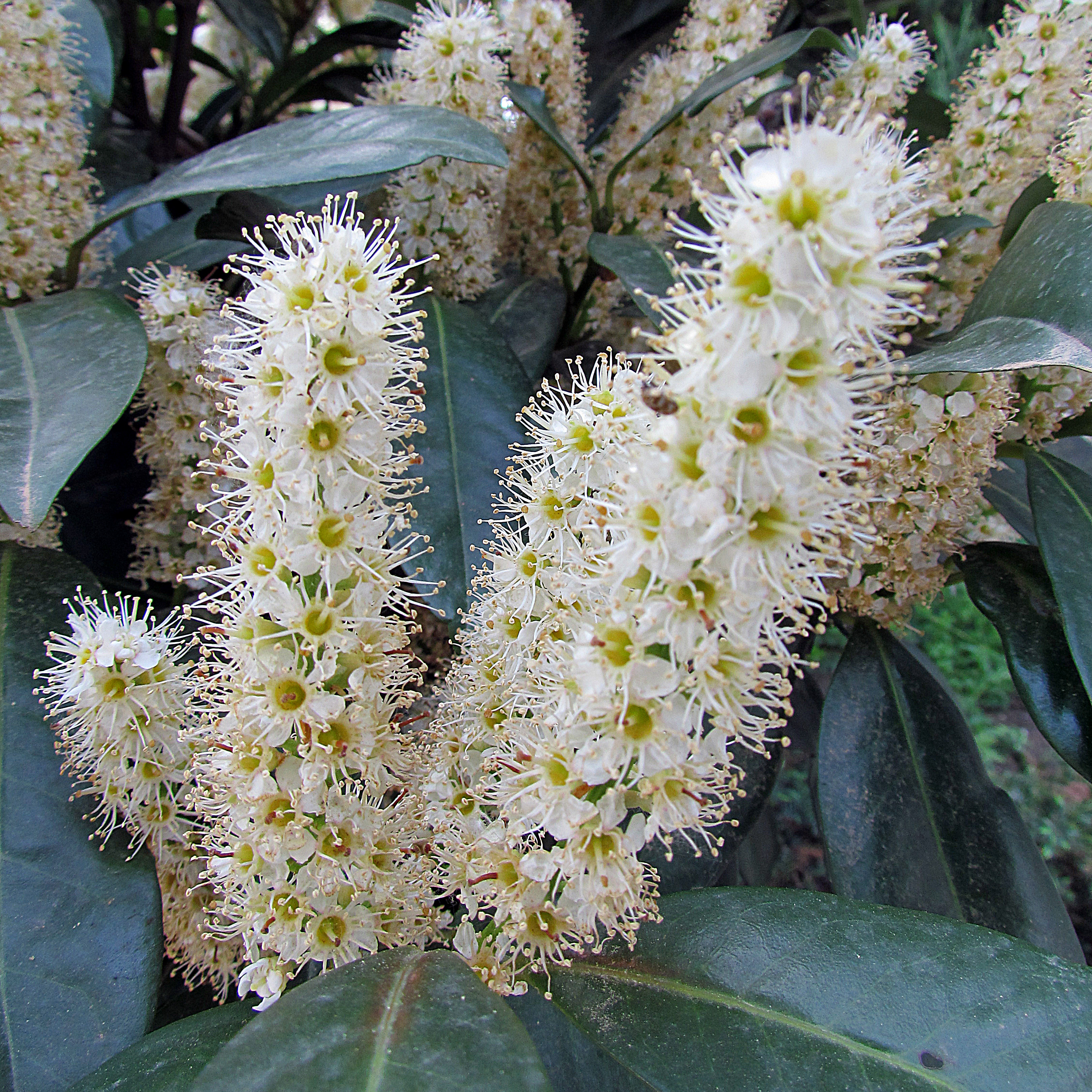 Prunus laurocerasus inflorescence